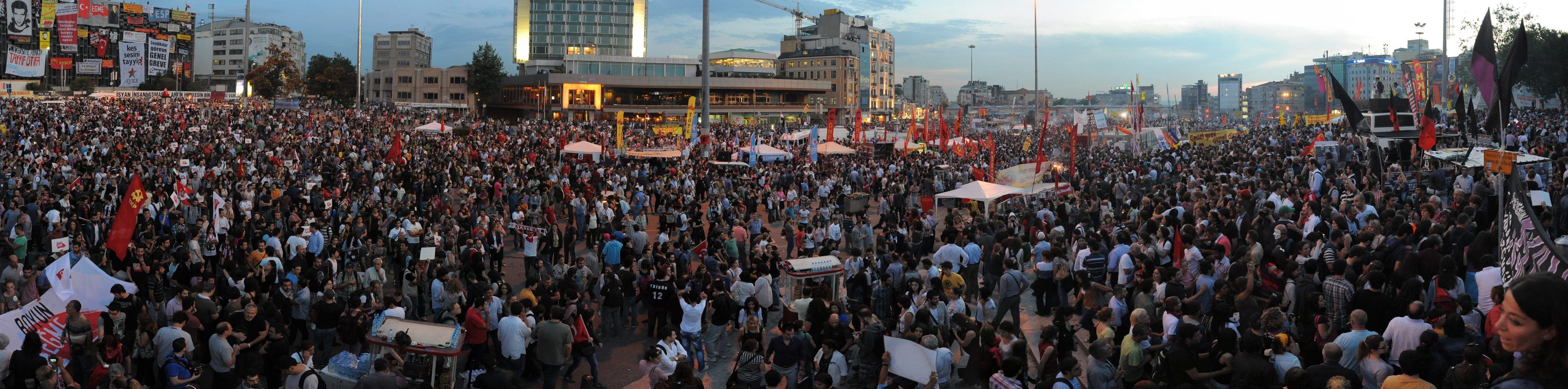 Panoramic of Taksim square protests. Events of June 6, 2013.